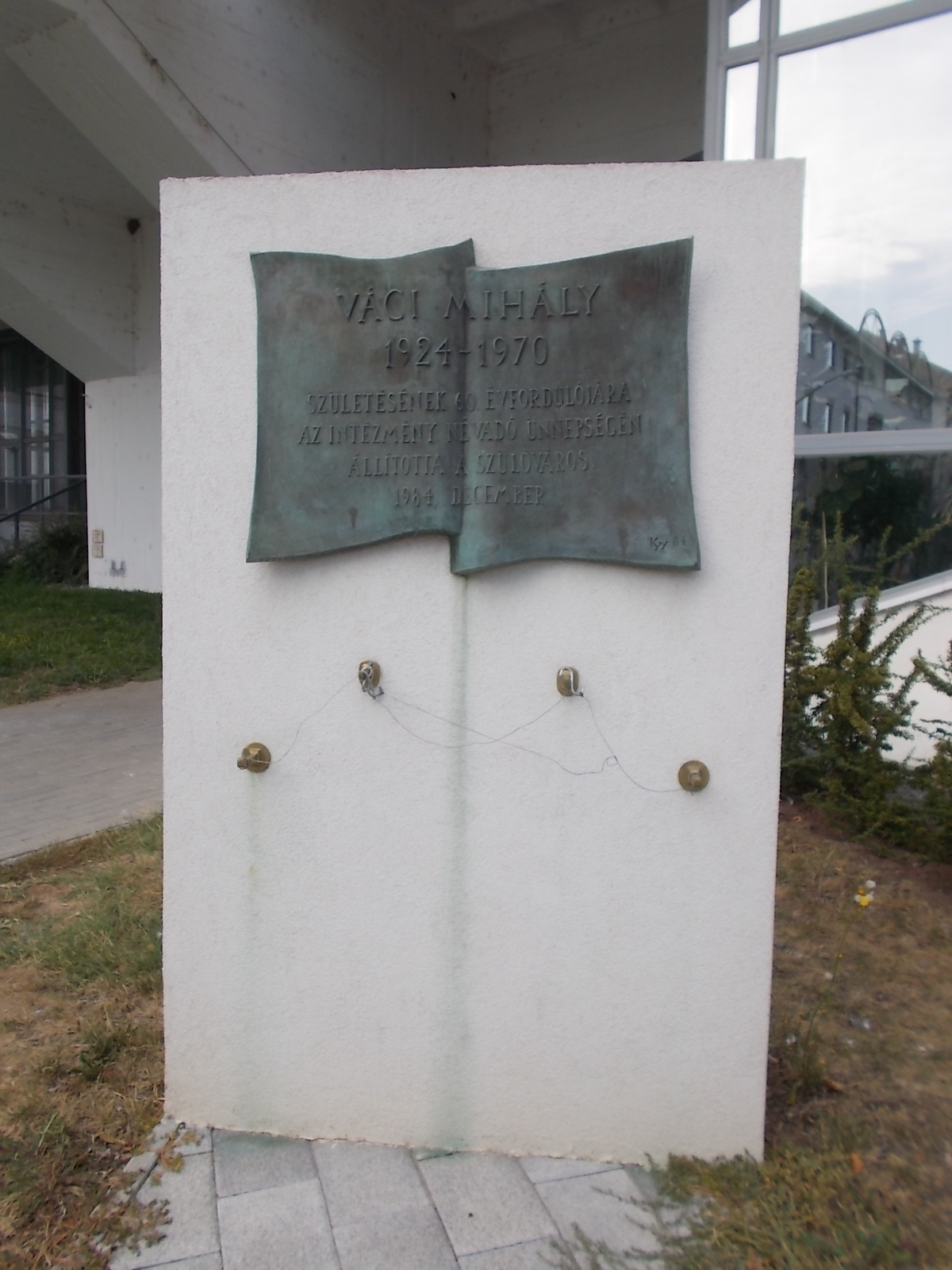 Mihály Váci bronze plaque-sign-sculpture? (1984) at the Cultural Center named after Mihály Váci planned by Ferenc Bán. - Szabadság Square, Nyíregyháza, Szabolcs-Szatmár-Bereg County, Hungary.